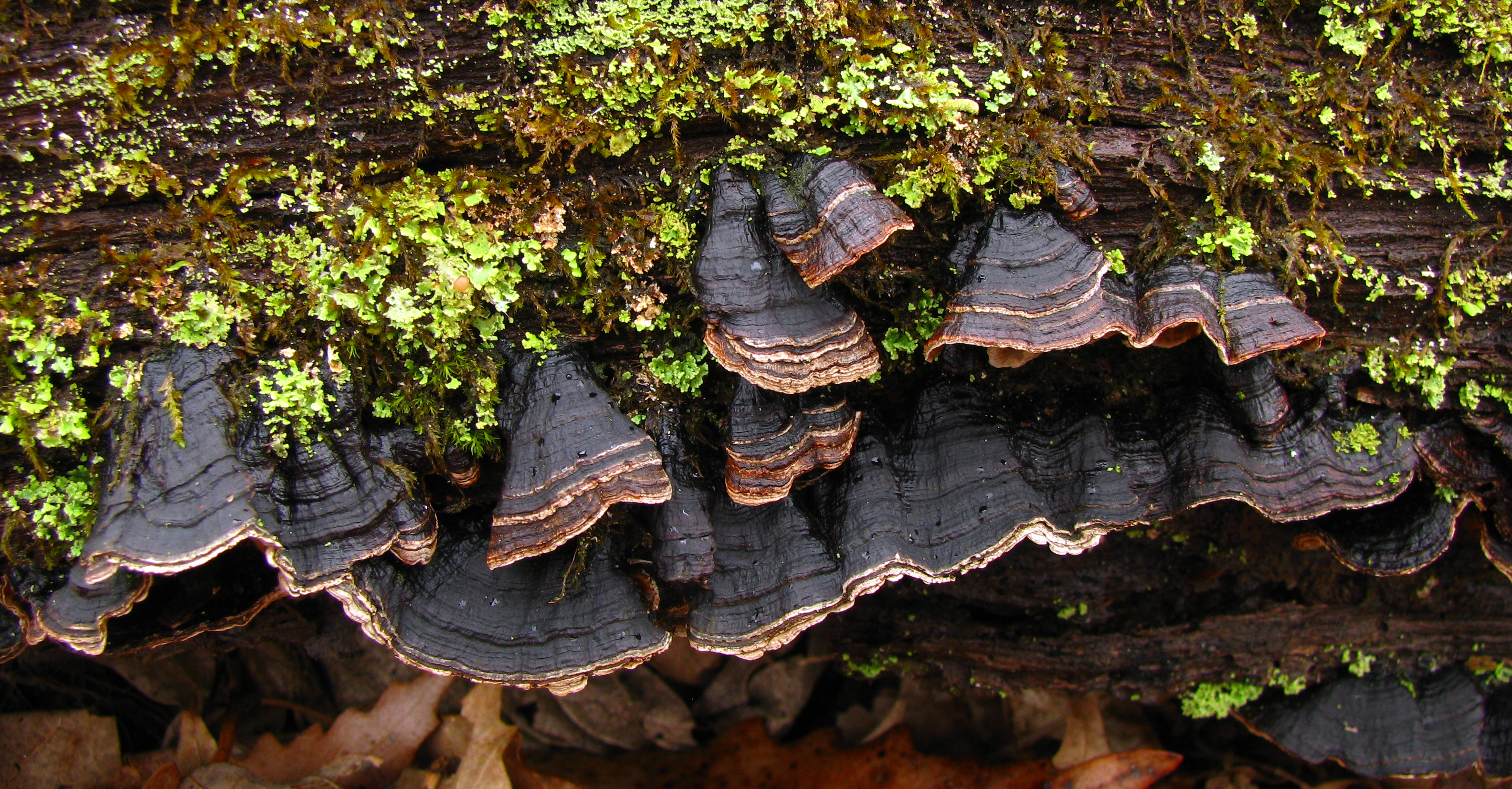 Fruit bodies of the fungus Hymenochaete rubiginosa (Dicks.) Lév. Photographed in Strouds Run State Park, Athens, Ohio, USA.